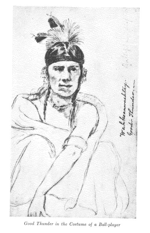 Dakota Chief "Good Thunder in the Costume of a Ball Player", sketched at Traverse des Sioux, Minnesota Territory